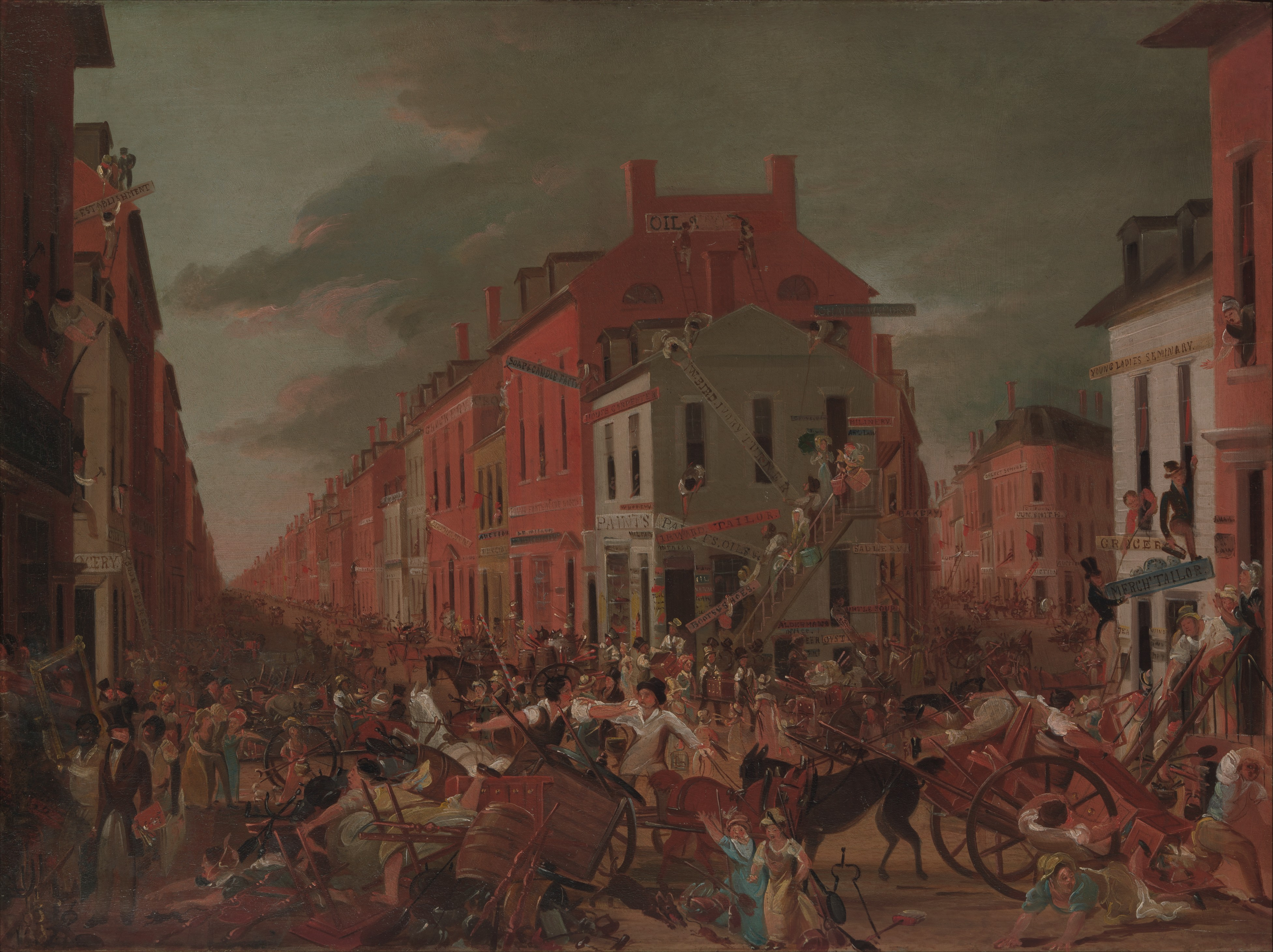 From the MET database : "Beginning in the colonial era, leases in New York City expired on May 1, dubbed Moving Day. This deadline lasted throughout the nineteenth century. On Moving Day, trade in the city stopped entirely as New Yorkers transferred all their possessions from one location to another in a tumult exacerbated by pervasive housing shortages. Businesses also moved, as illustrated here by the layering of shop signs on the building in the center. In the foreground, a woman is sprawled across the contents of an overturned cart, trapped by a table and chest of drawers. She—like the city in general—has been turned upside down. This work is a biting satire of the rough, chaotic aspects of life in the city.